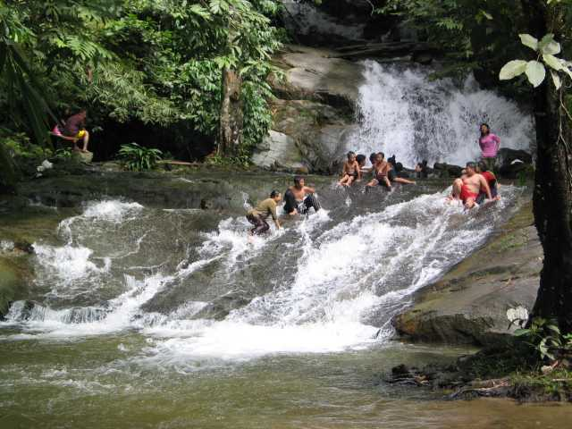 One of the lower Gabai Falls, Selangor, Malaysia. Picture taken by Jan Stuivenberg